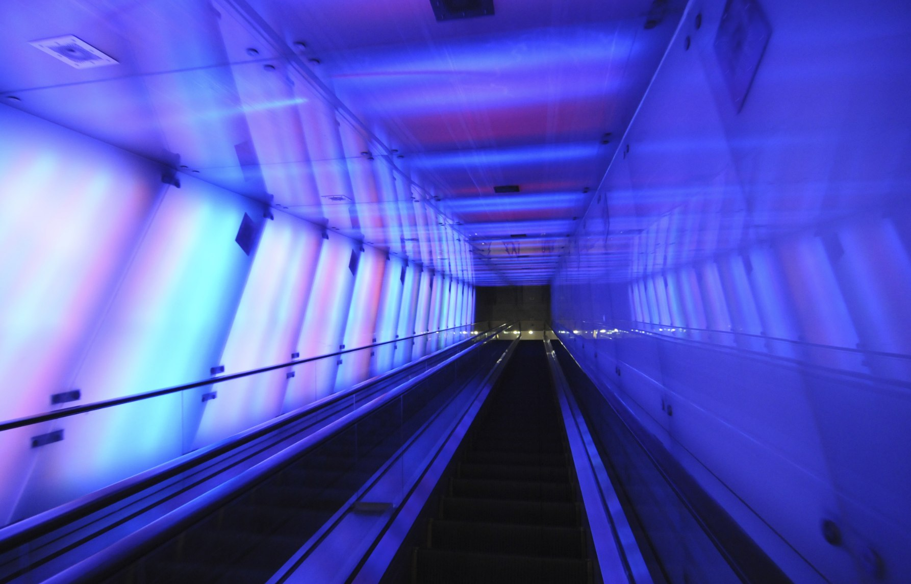 Tunnel Of Light, the entry of Nydalen Subwaystation, has won several art-prizes.